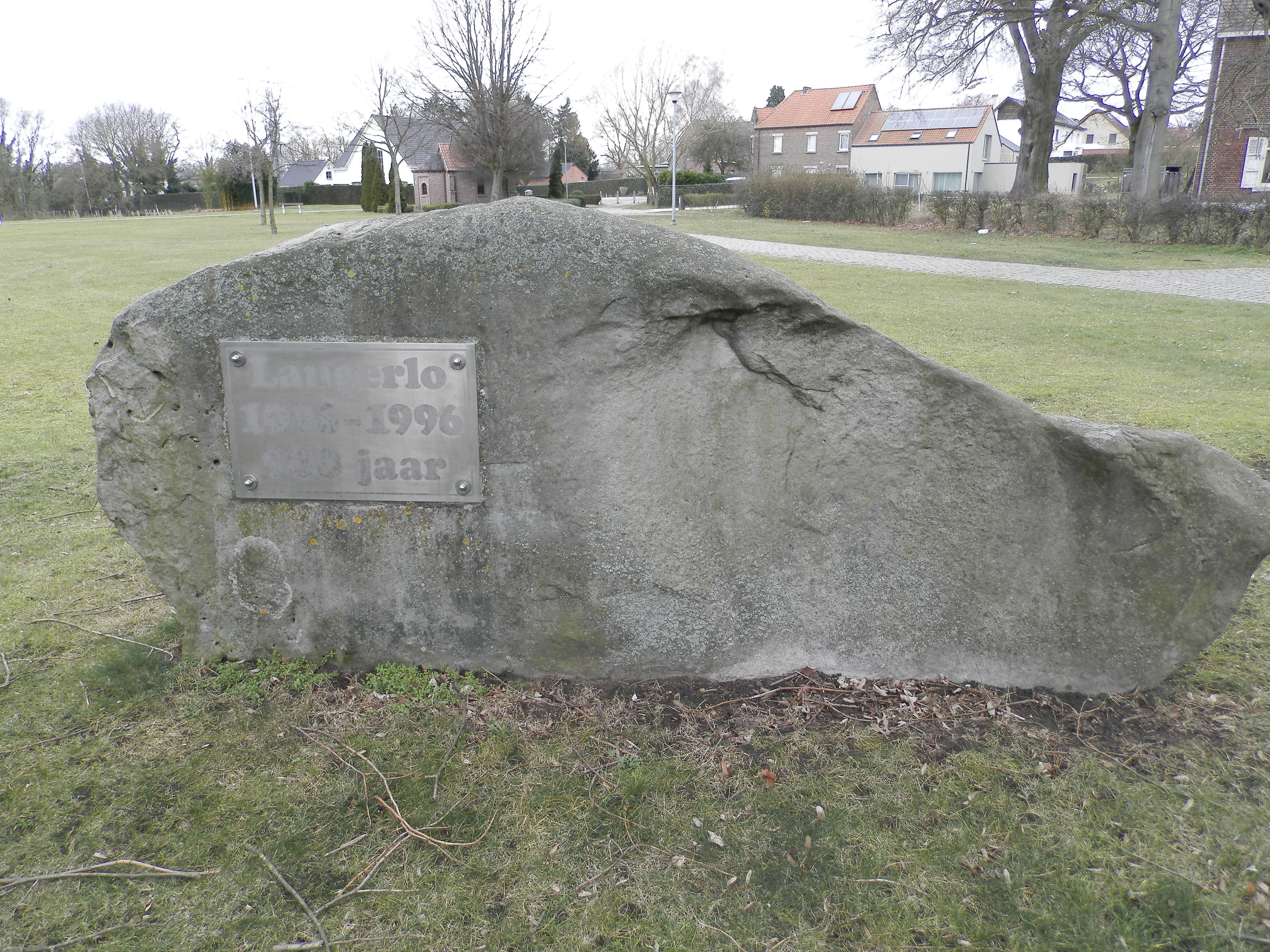 Langerlo